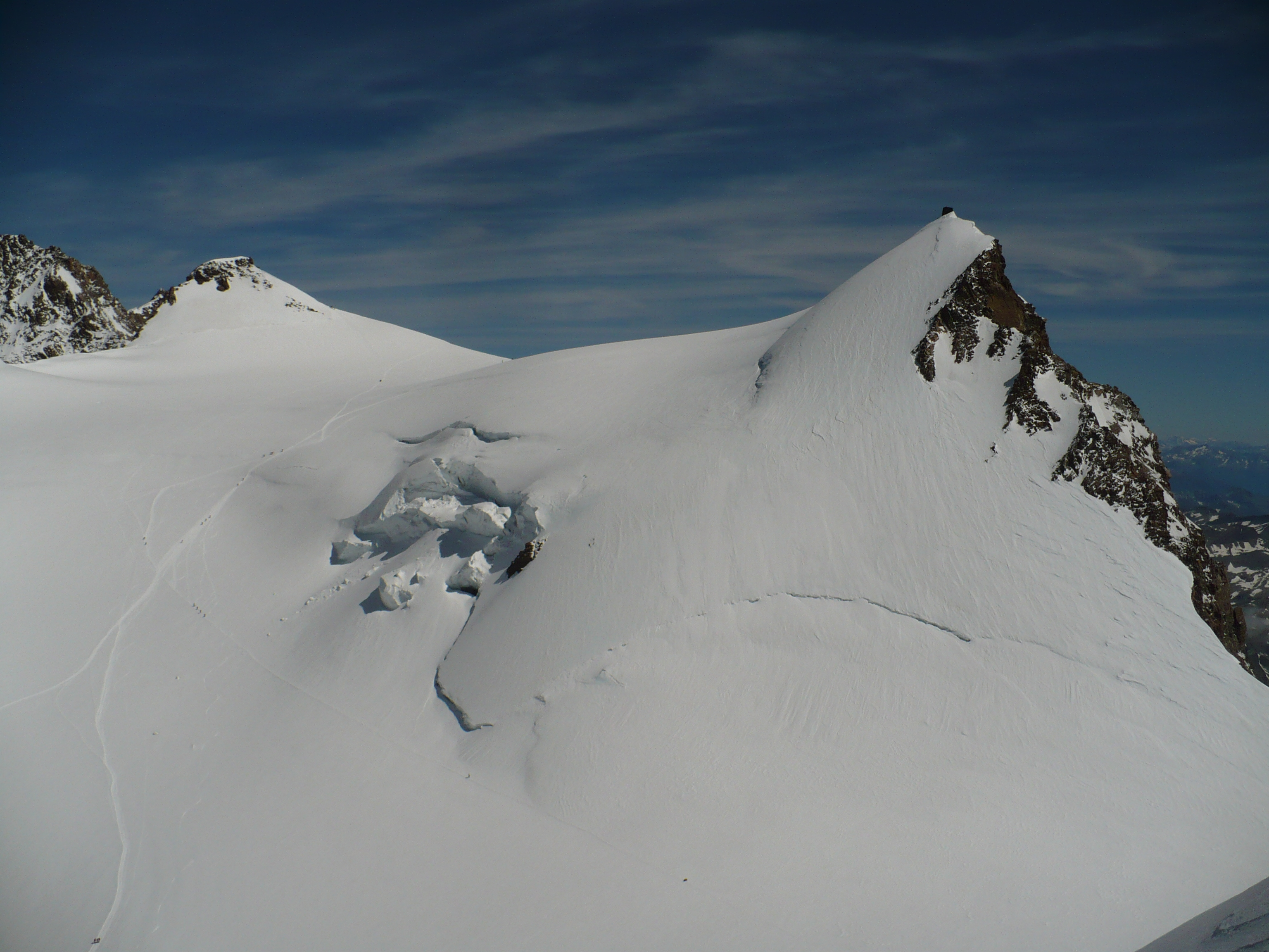 Zumsteinspitze (left) and Signalkuppe (right) - Monte Rosa massif - Pennine Alps